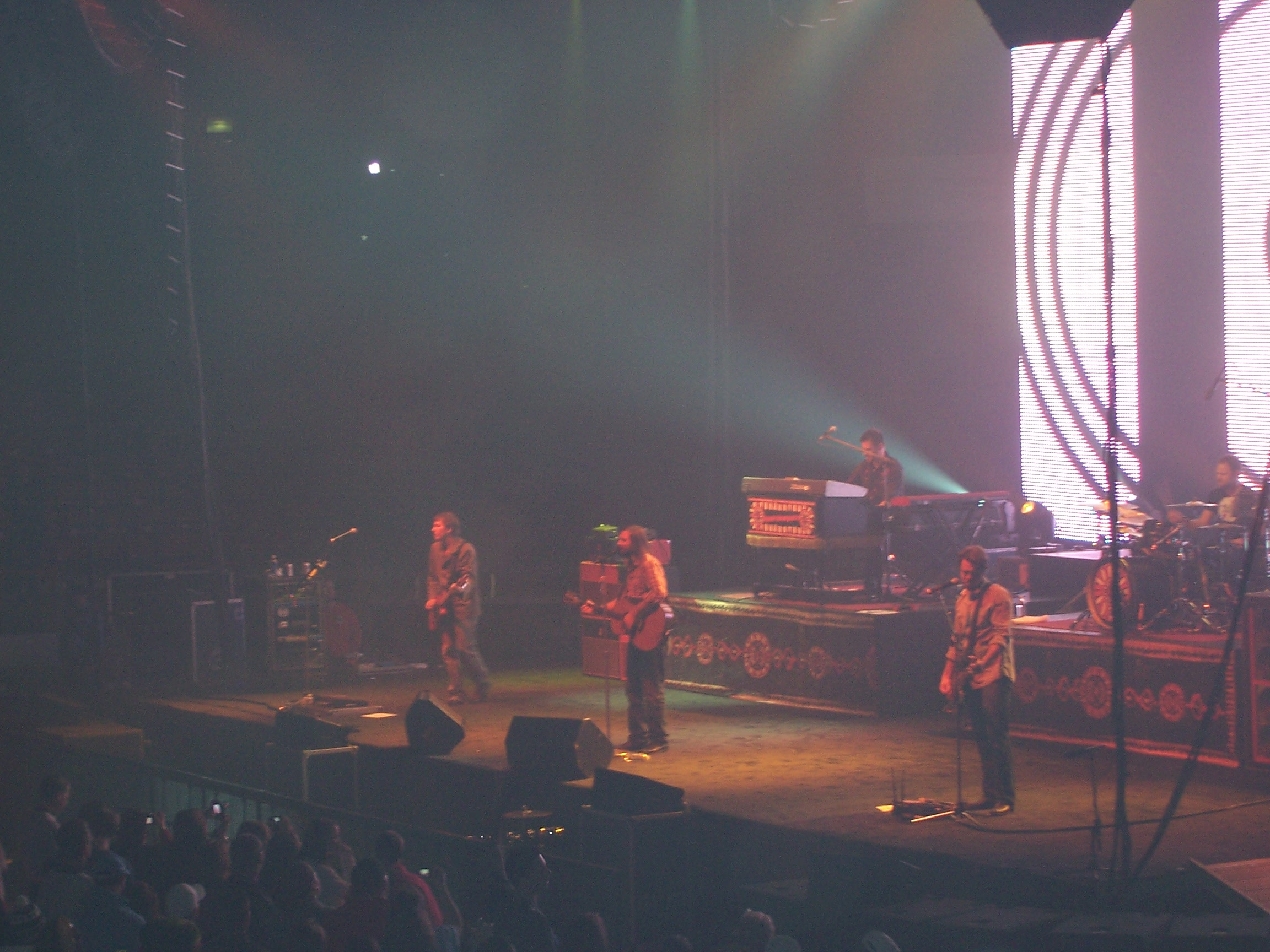 Third Day in Concert at the NC State Fair